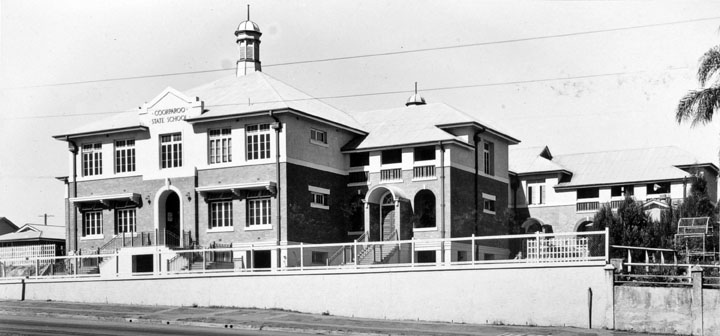 Coorparoo State School, Brisbane. (Located at Old Cleveland Road, Coorparoo, Brisbane.)